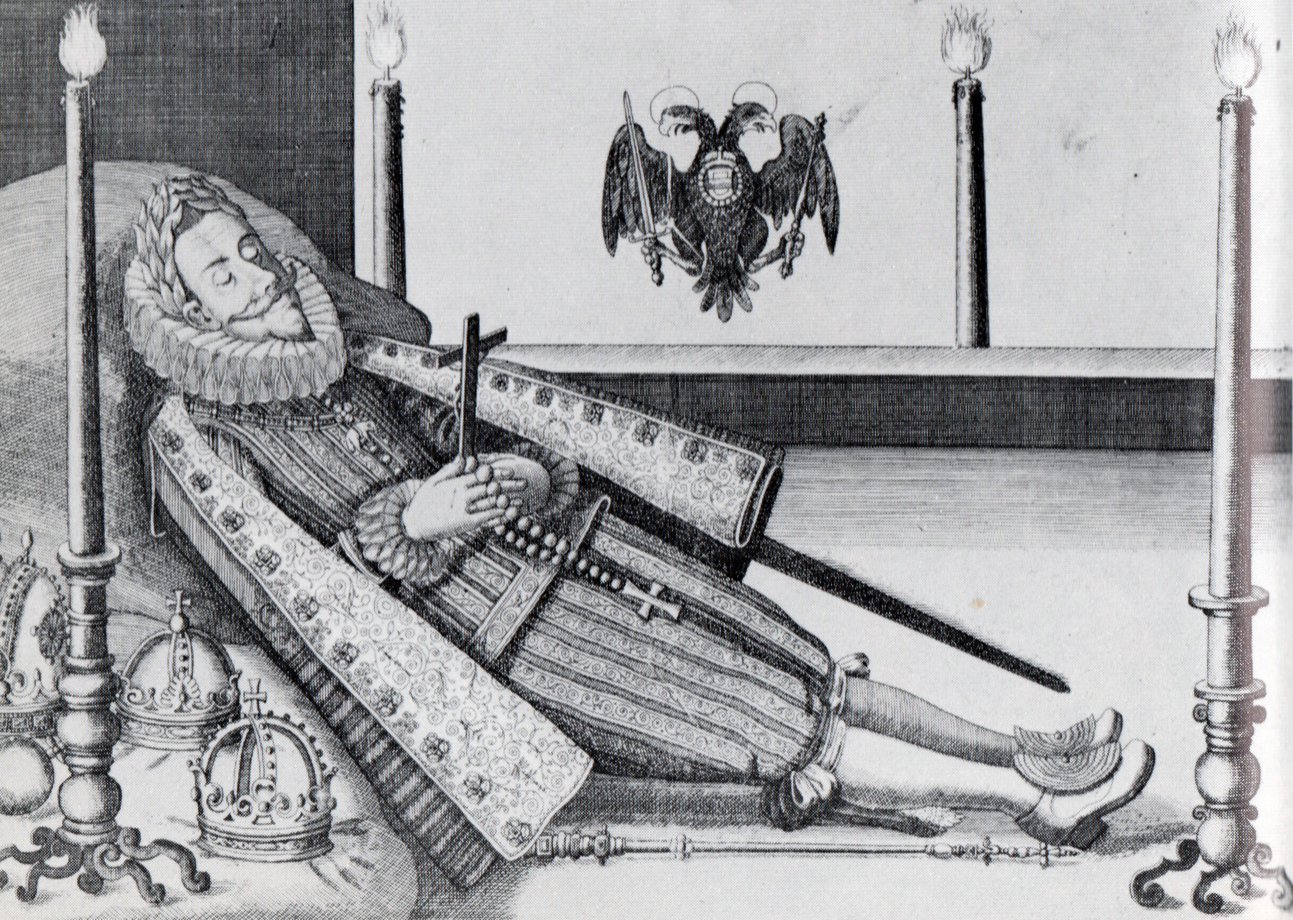 Emperor Ferdinand II (1578-1637) on the deathbed